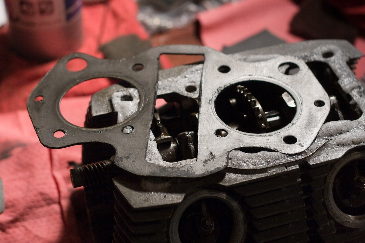 Head gasket